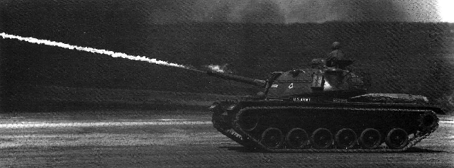 M67A1 (Army type) flame thrower tank at Fort Knox, on display for cadets